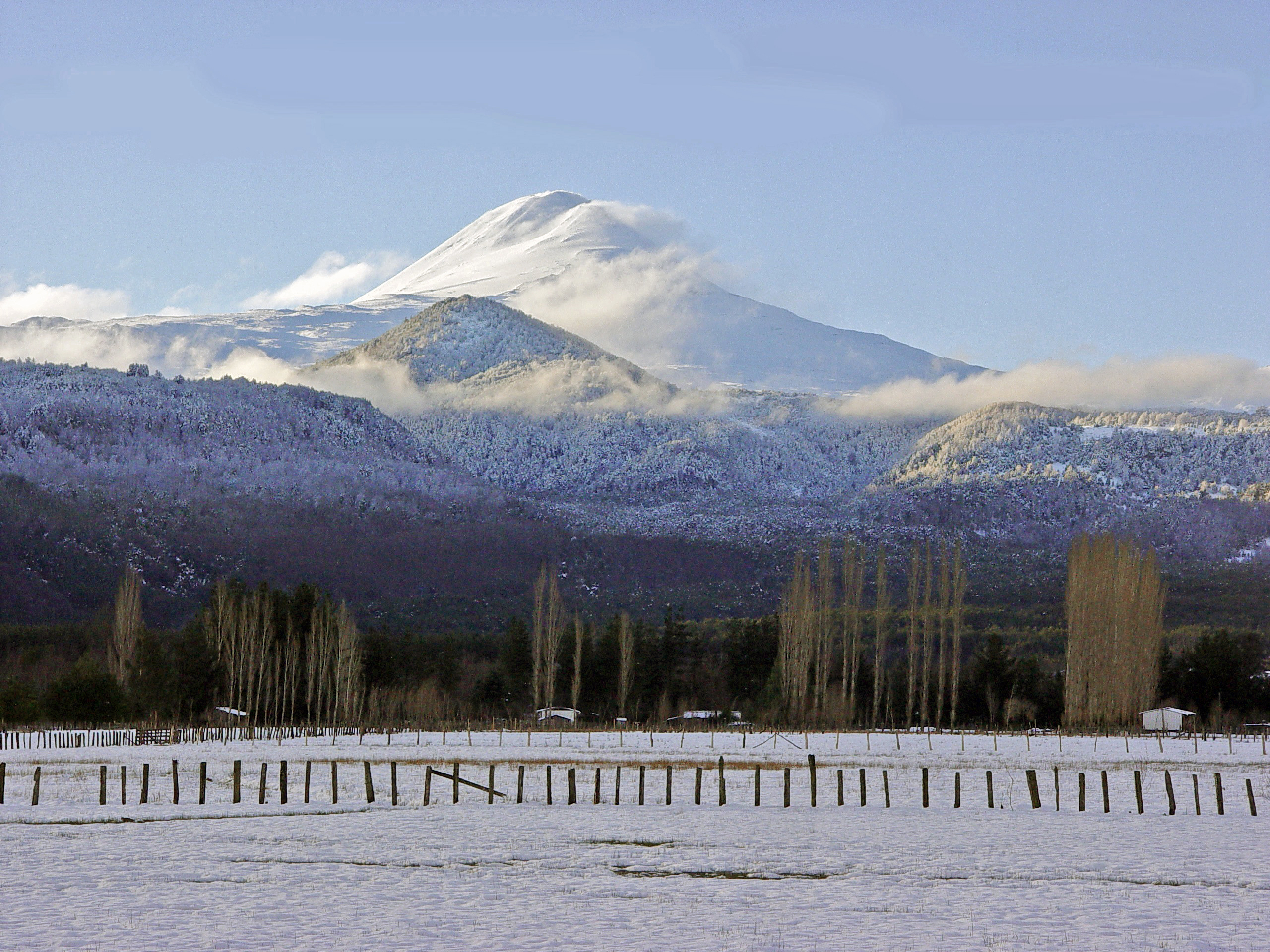 Mt. Llaima, an active volcano in Southern Chile. View of the southern slope.